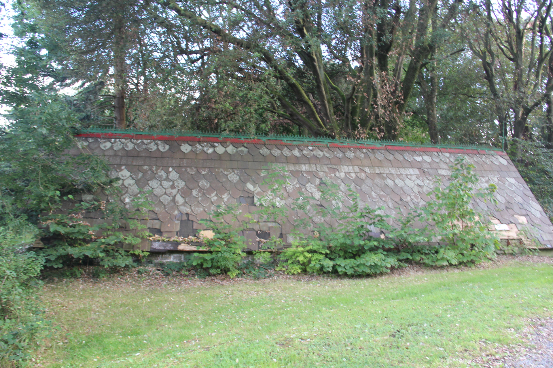 Side profile of the Boathouse